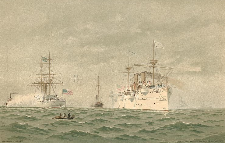 Chromolithograph by Armstrong & Company, after a watercolor by Fred S. Cozzens, published in "Our Navy -- Its Growth and Achievements", 1897. It depicts Baltimore departing New York harbor to carry the remains of John Ericsson to his native Sweden, in August 1890. At left, flying the Swedish flag at her forepeak and firing a salute, is USS Boston.